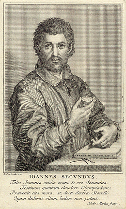 Janus Secundus, Dutch Neo-Latin poet